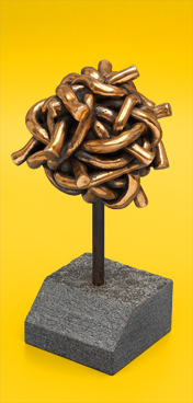 FLUX Trophy